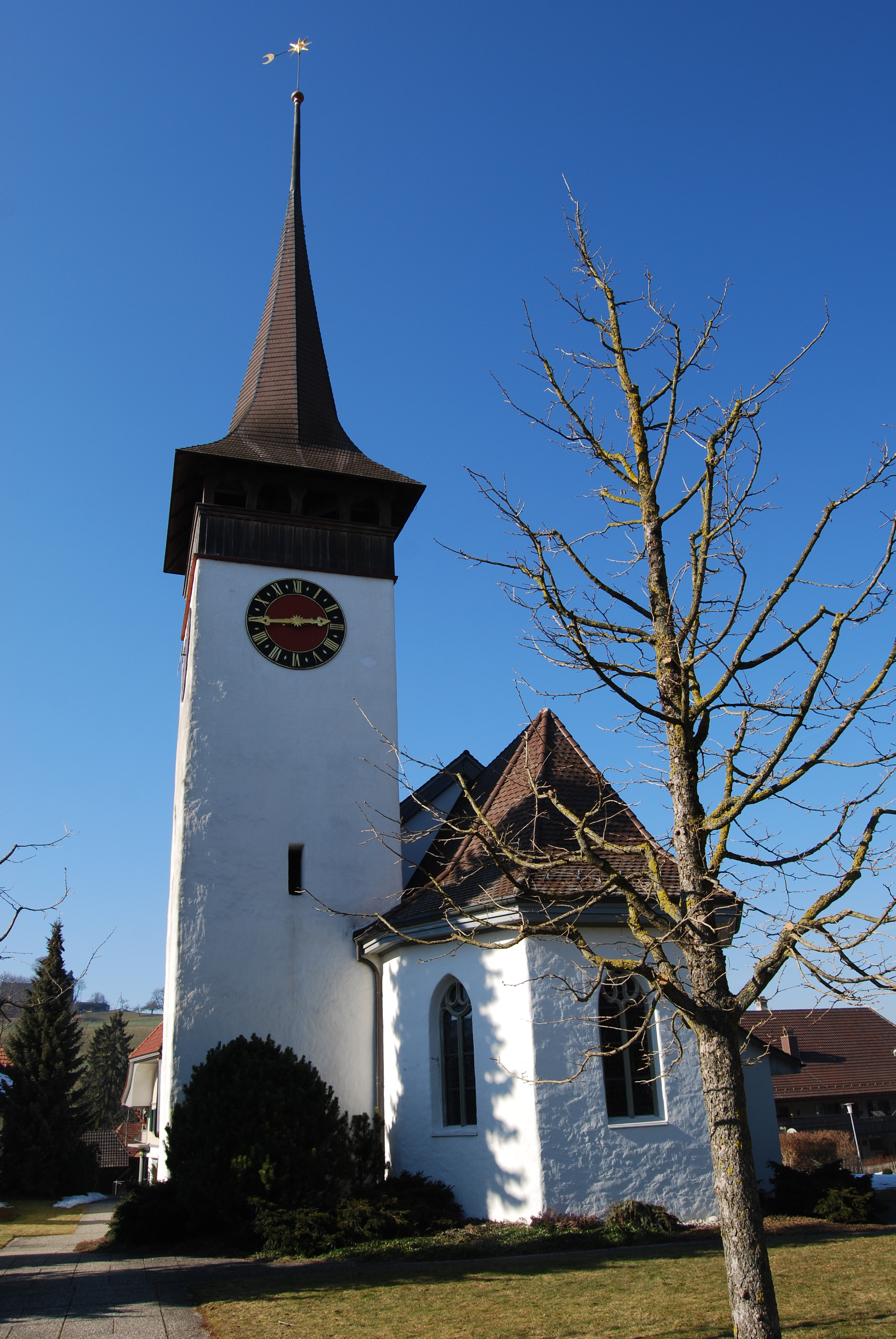 Protestant Church of Eriswil, canton of Bern, Switzerland